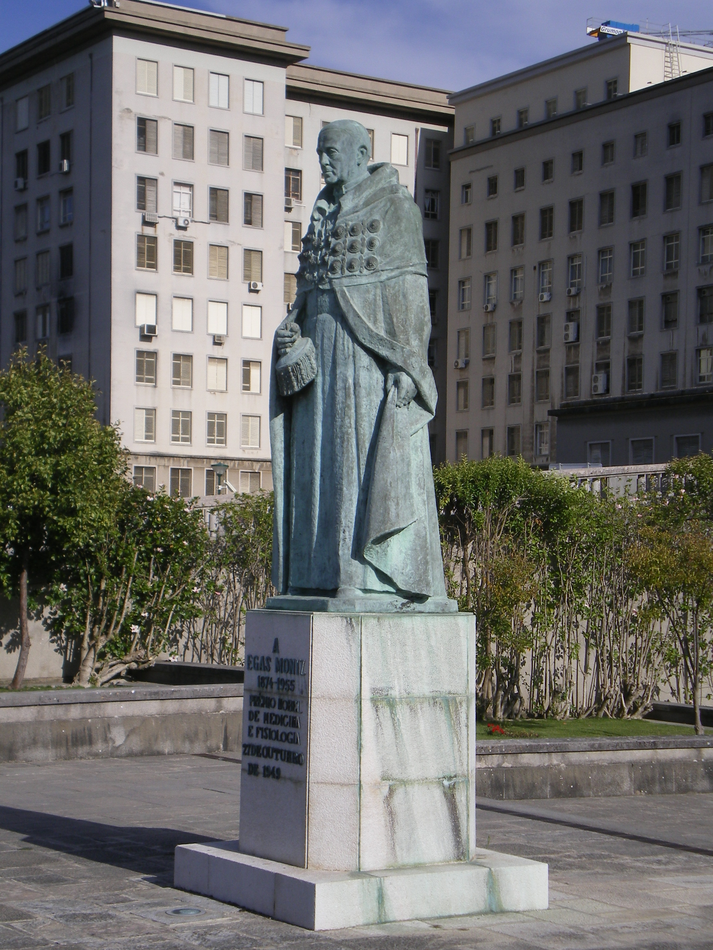 Egas Moniz Statue, Faculty of Medicine, University of Lisbon.